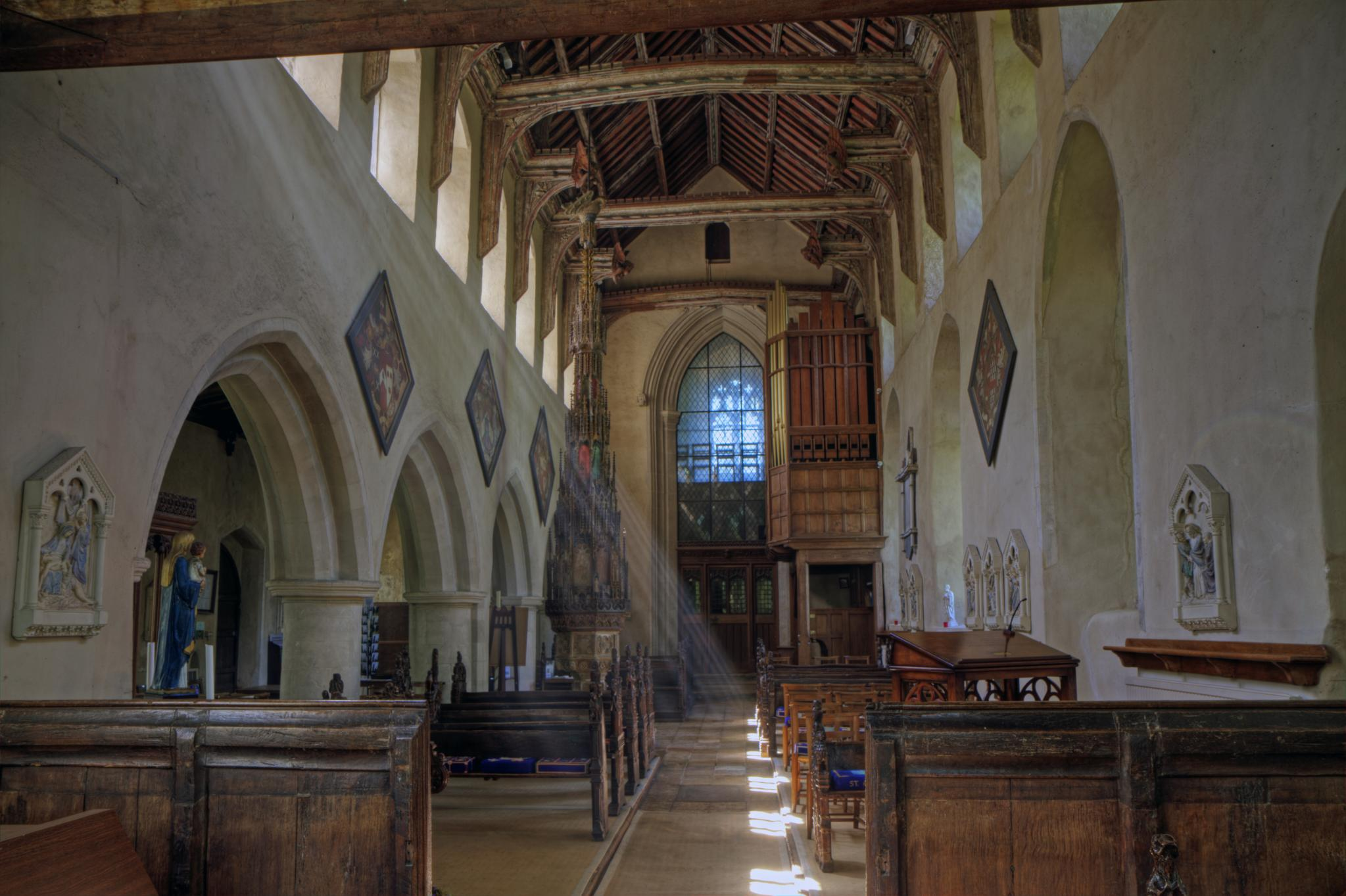 Inside the nave of the parish church of the Assumption of the Blesséd Virgin Mary, Ufford, Suffolk, looking west to the tower arch. Note the tall ornate cover on the font near the west end of the nave. An HDR image taken with Canon 7D and Canon 17-55mm F2.8 IS lens. AEB +/-3 total of 7 exposures processed with Photomatix. Colors adjusted in PSE 9.